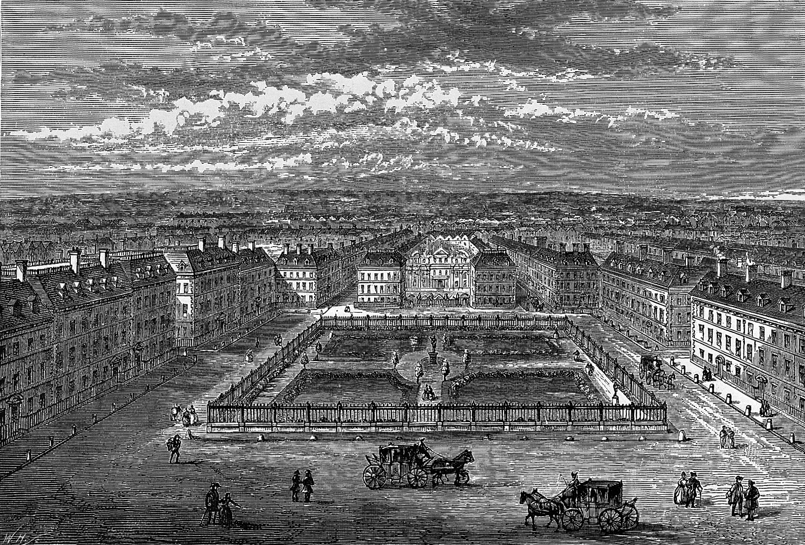 Soho Square. General Collections Keywords: london: 18th century